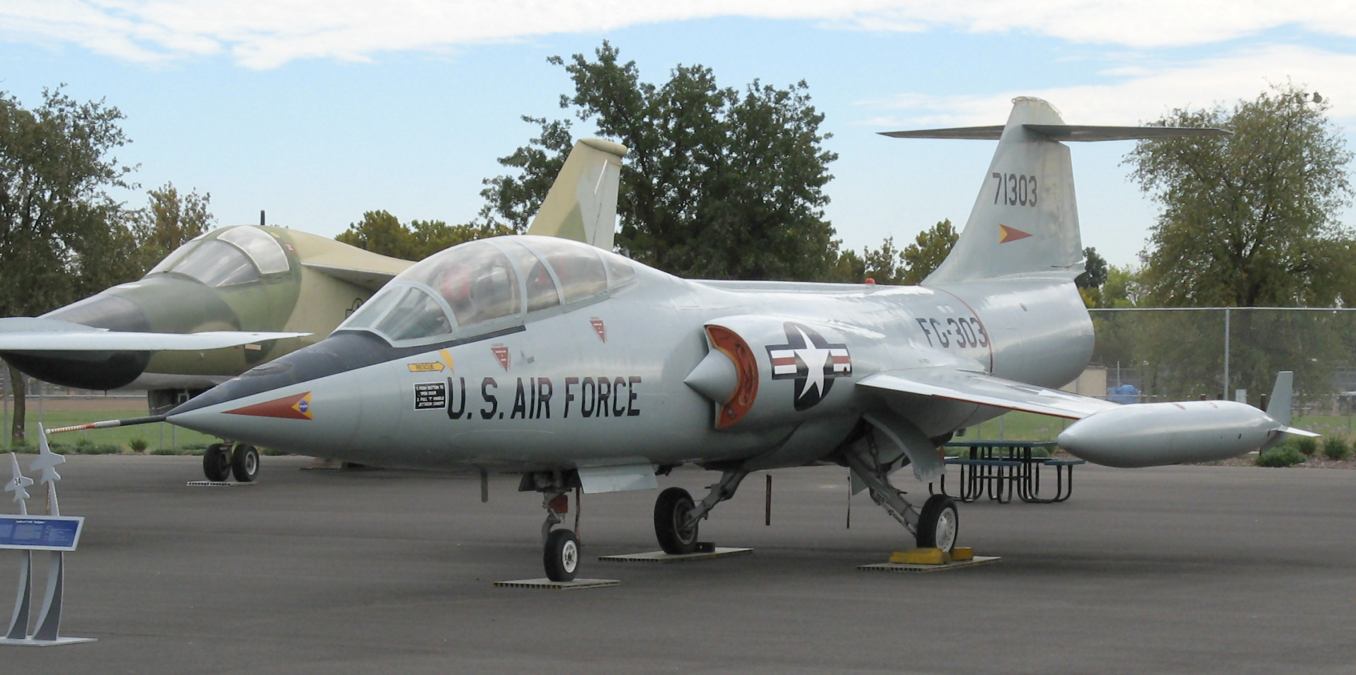 Lockheed F-104D Starfighter, Sacramento Aerospace Museum, California